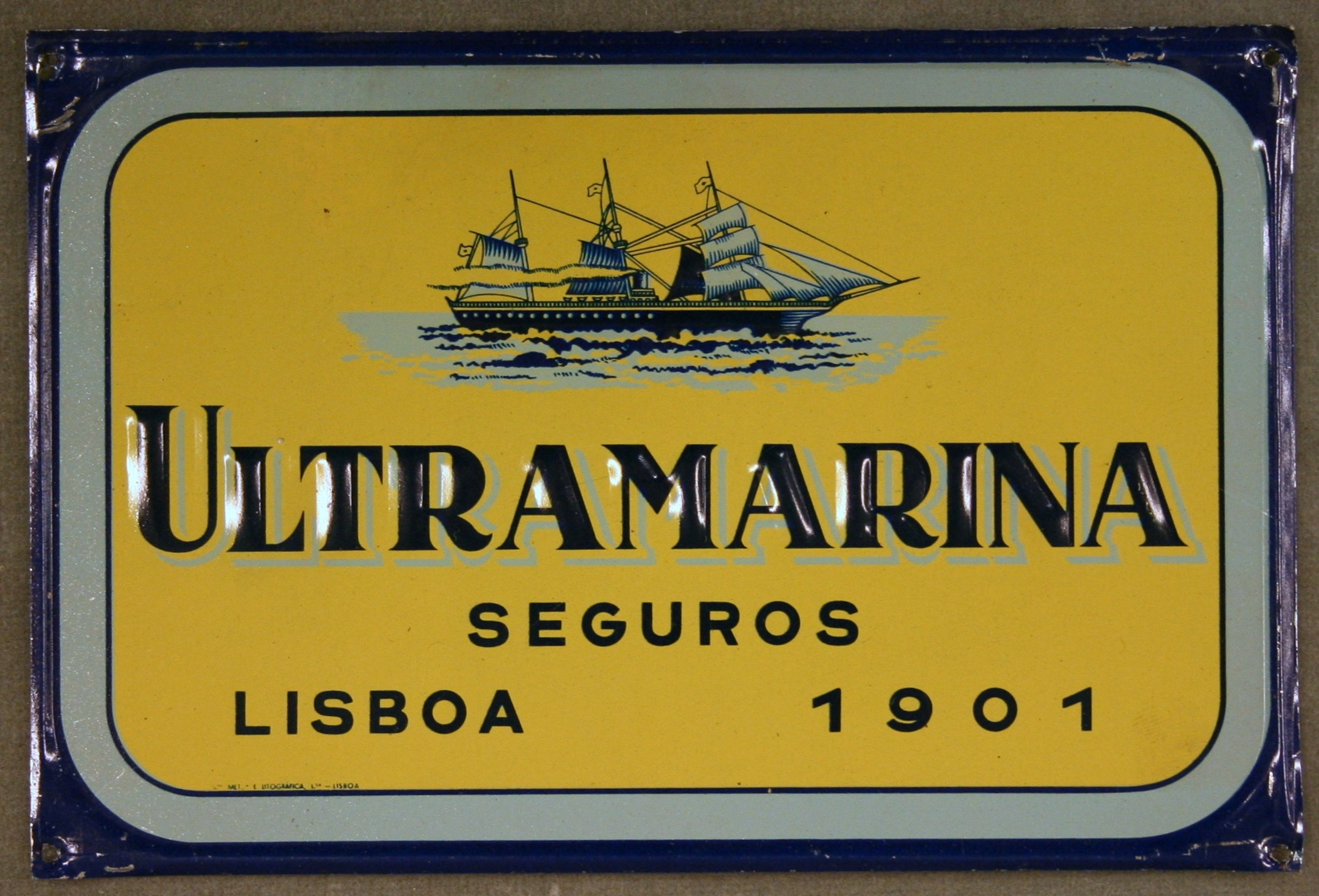 Pressed tin firemark for Ultramarina Sociedade Anonima de Responsibilidade Limitada in Lisbon, Portugal showing small blue ship at top and company name below all on yellow backgroundTitle: Fire mark for Ultramarina Sociedade Anonima de Responsibilidade Limitada in Lisbon, Portugal